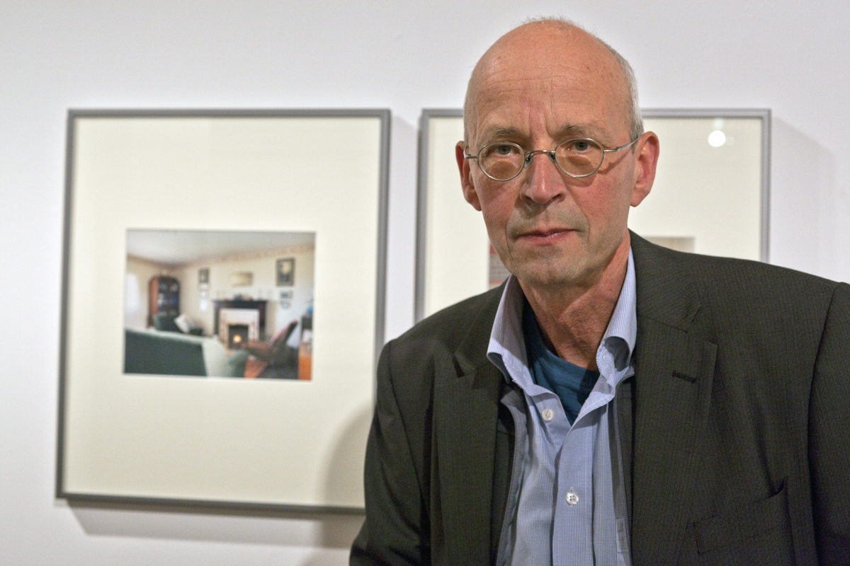 Phtographer Martin Rosswog at Landesmuseum Bonn, October 2011